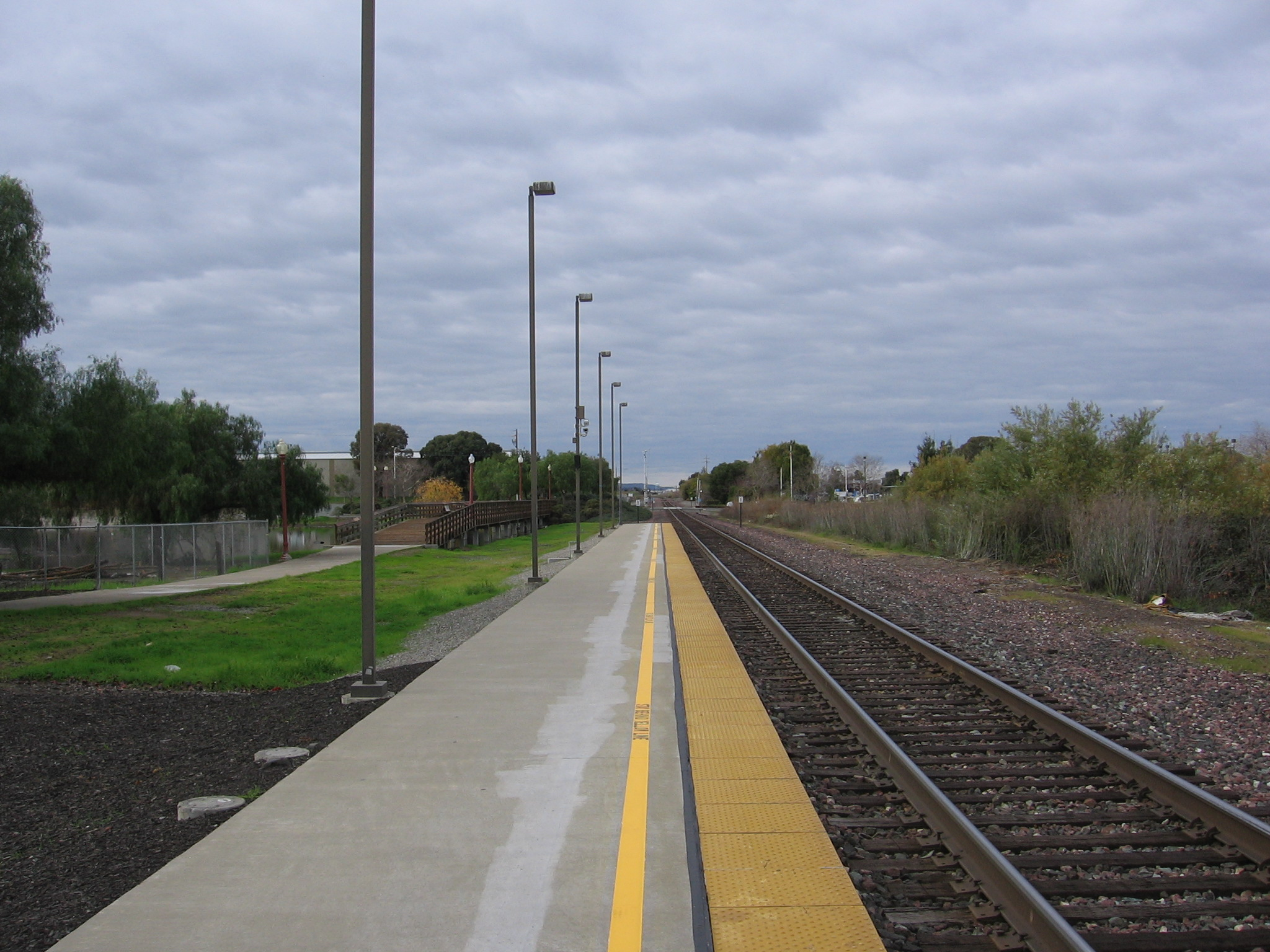 The Antioch–Pittsburg (Amtrak station) in Antioch, California, USA. View is looking west along the platform. Note the wooden pedestrian bridge to the left of the tracks in the distance.